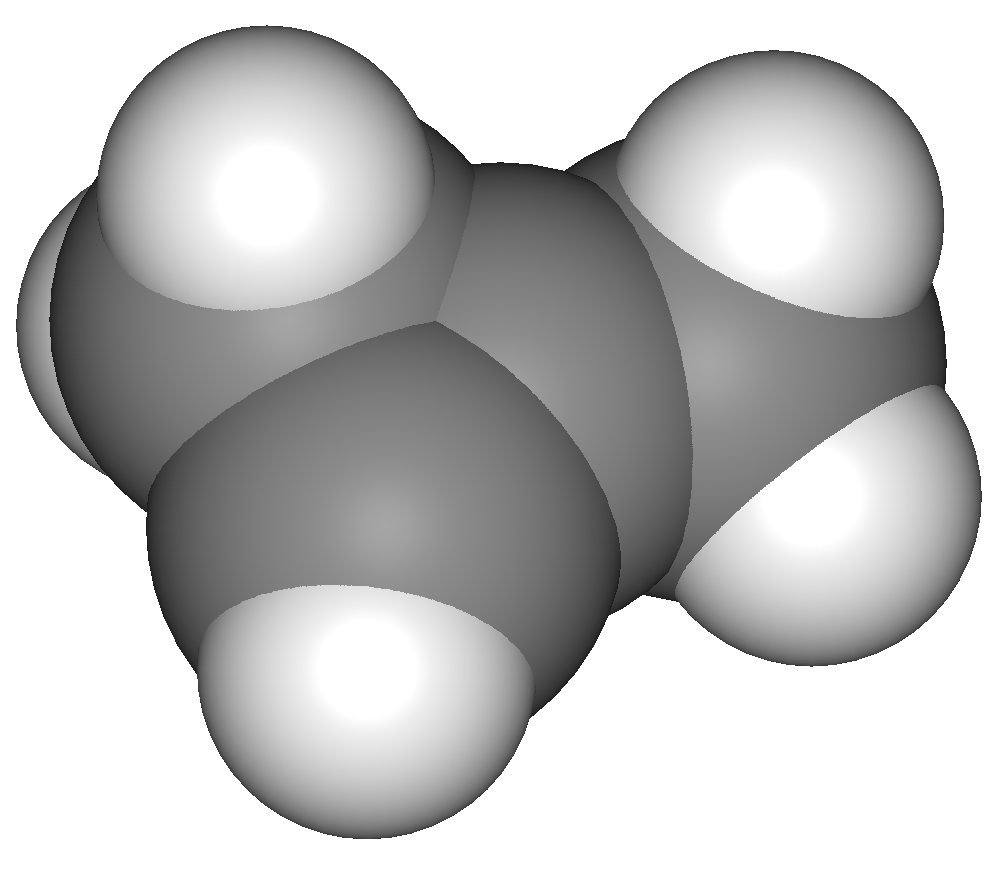 chemical structure of 1-methylcyclopropene (MCP)